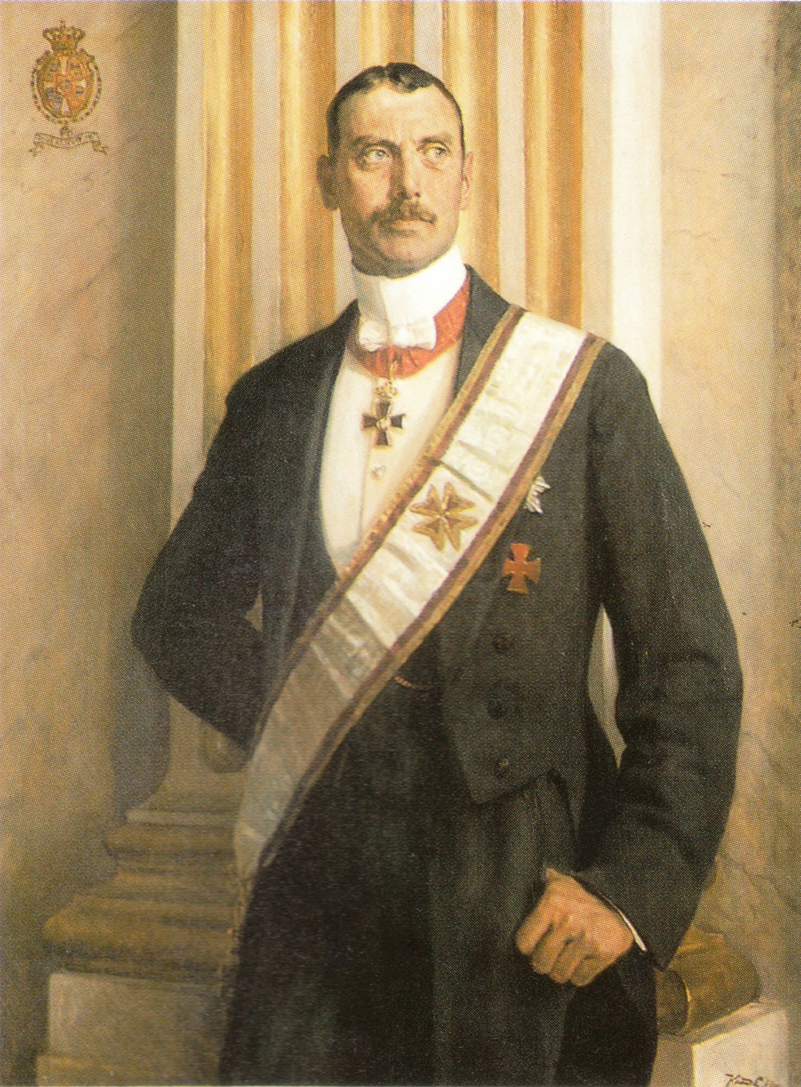 Depicted person: Christian X of Denmark in his Freemasonic costume.